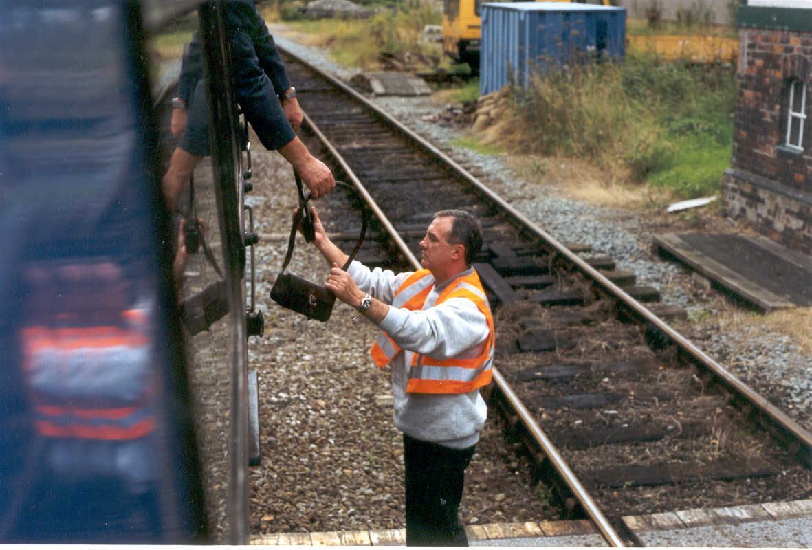 Exchanging single line tokens at North Llanrwst railway station on the Conwy Valley Line in 1999.